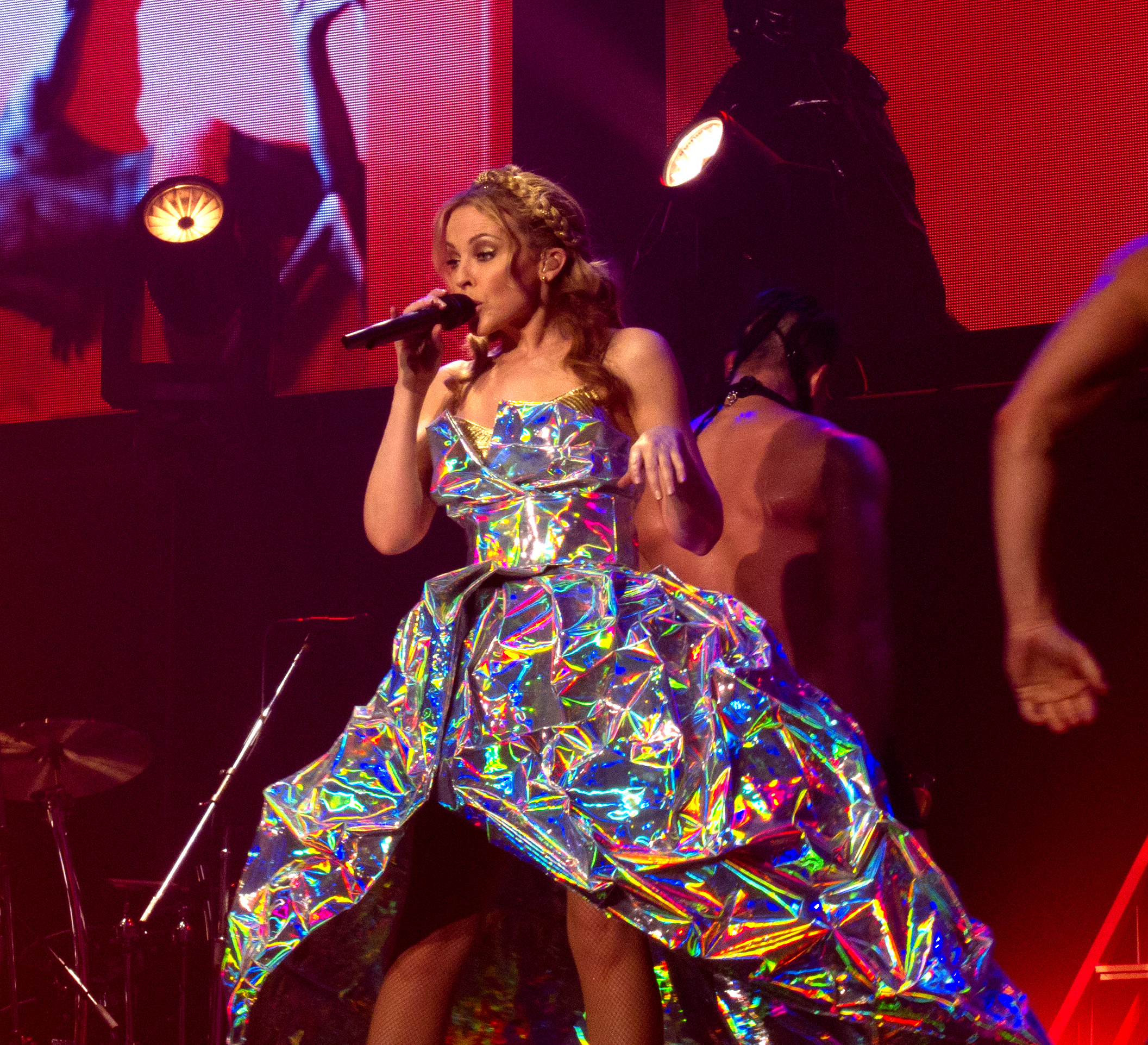 Kylie Minogue performing "Can't Get You Out of My Head" at the Aphrodite Tour concert at the Makuhari Messe in Chiba Prefecture, Japan.